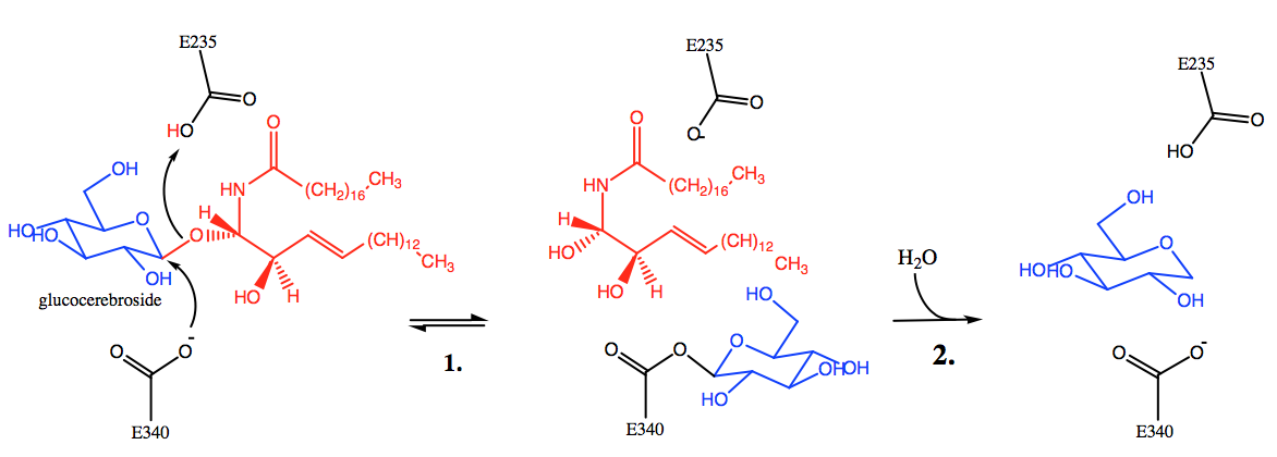 mechanism of glucocerebroside hydrolysis by glucocerebrosidase